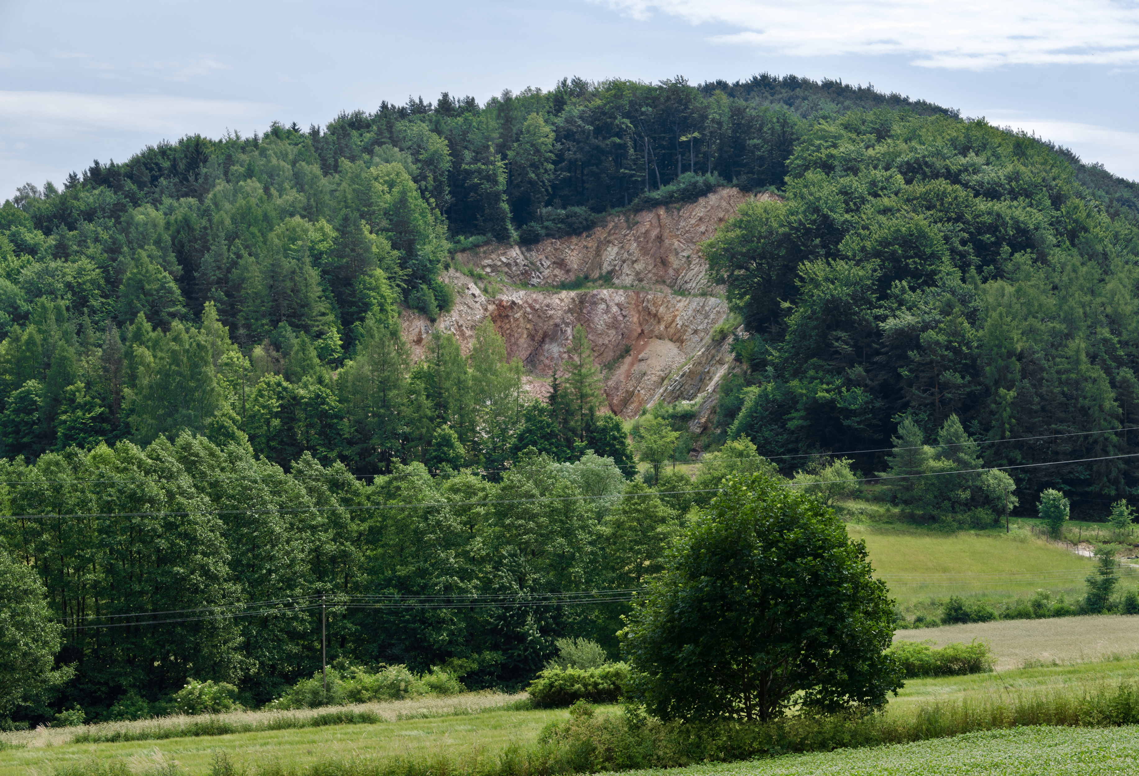 Quarry in Krowiarki